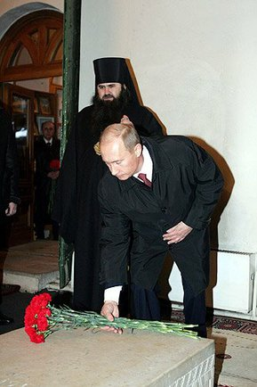 Vladimir Putin lays flowers at the grave of Kuzma Minin in Saint Michael the Archangel Church of Nizhny Novgorod Kremlin